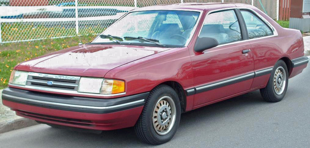 1988-1991 Ford Tempo coupe photographed in Montreal, Quebec, Canada.